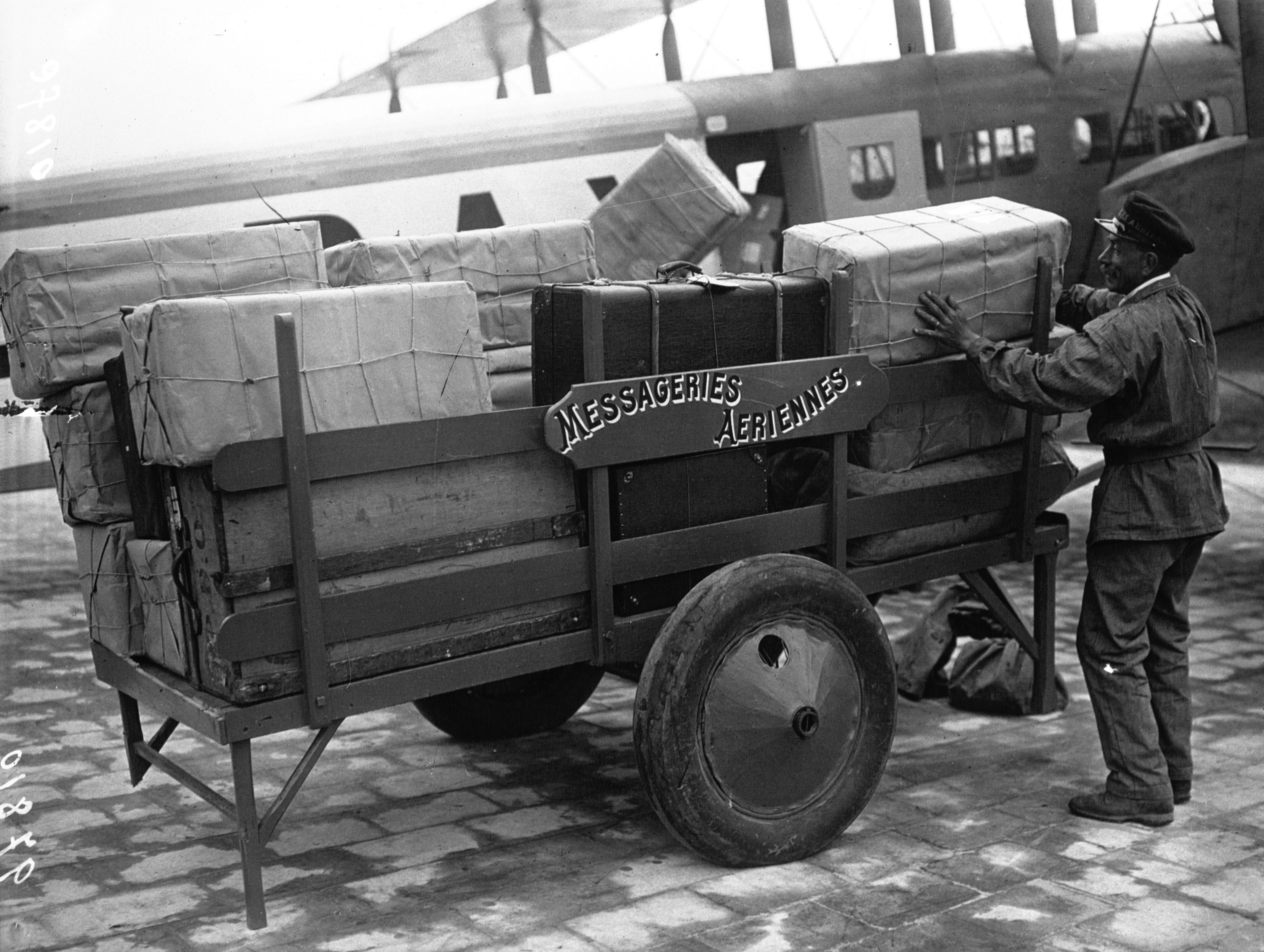 A baggage cart of the Compagnie des Messageries Aériennes at Le Bourget Airport in 1922.